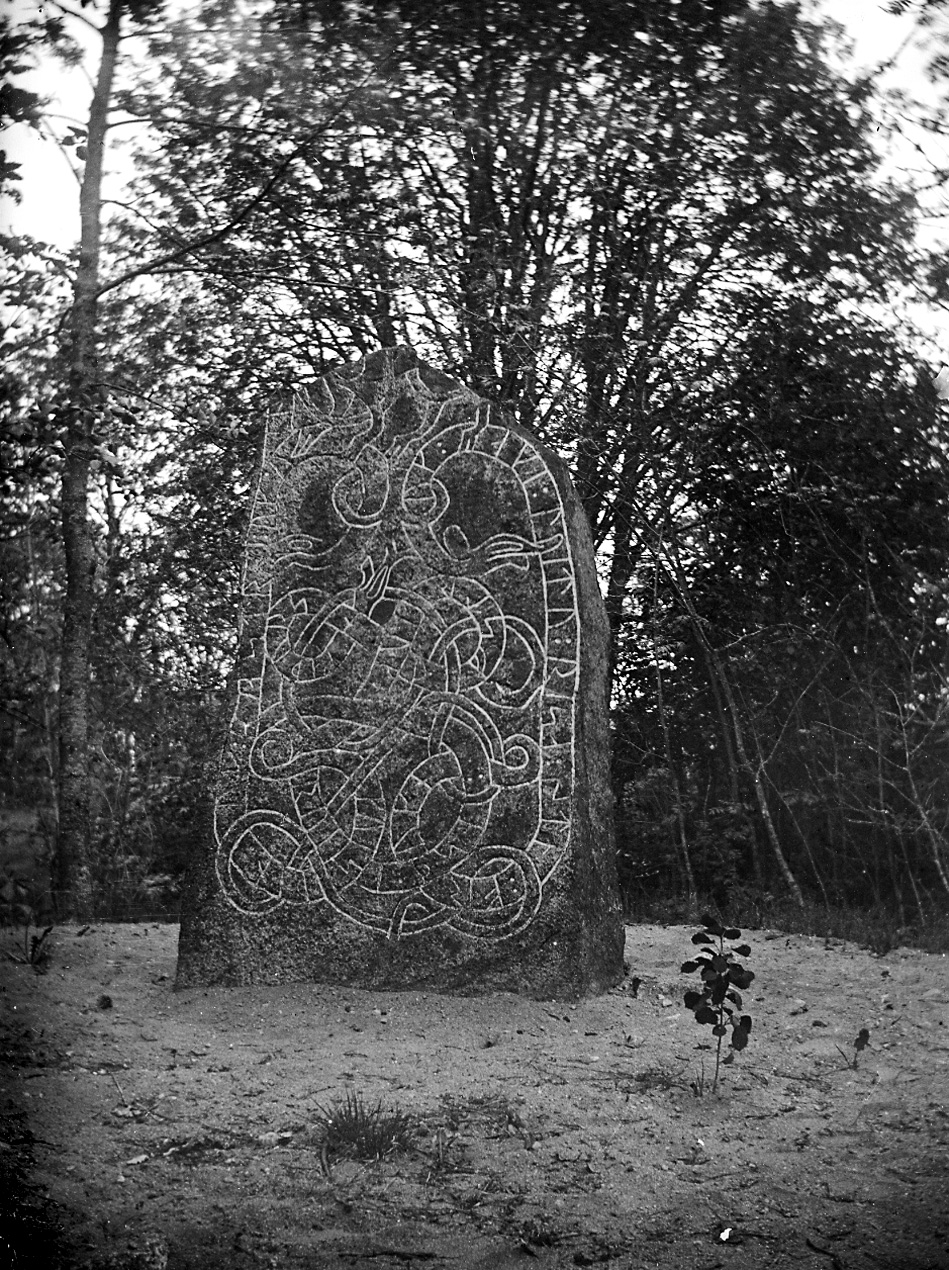 Runestone U 1158 at Stora Salfors, Simtuna parish, Uppland, Sweden in May 1919